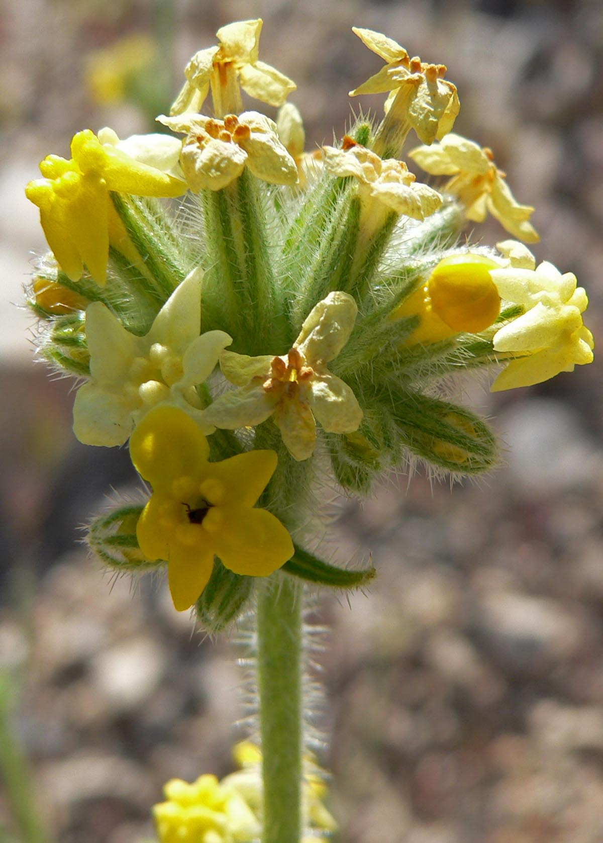 Photo of Cryptantha confertiflora in Red Rock Canyon near Las Vegas, Nevada